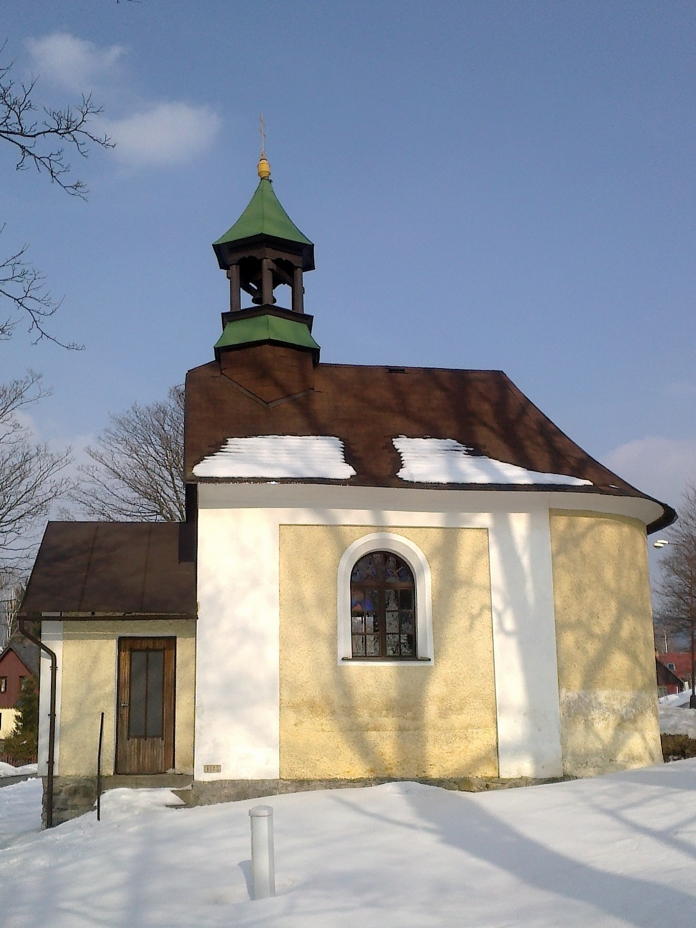 Chapel of Holy Family (Plasnice)